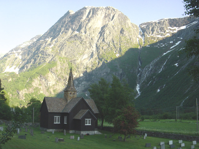 Rauma and the Kors kirke